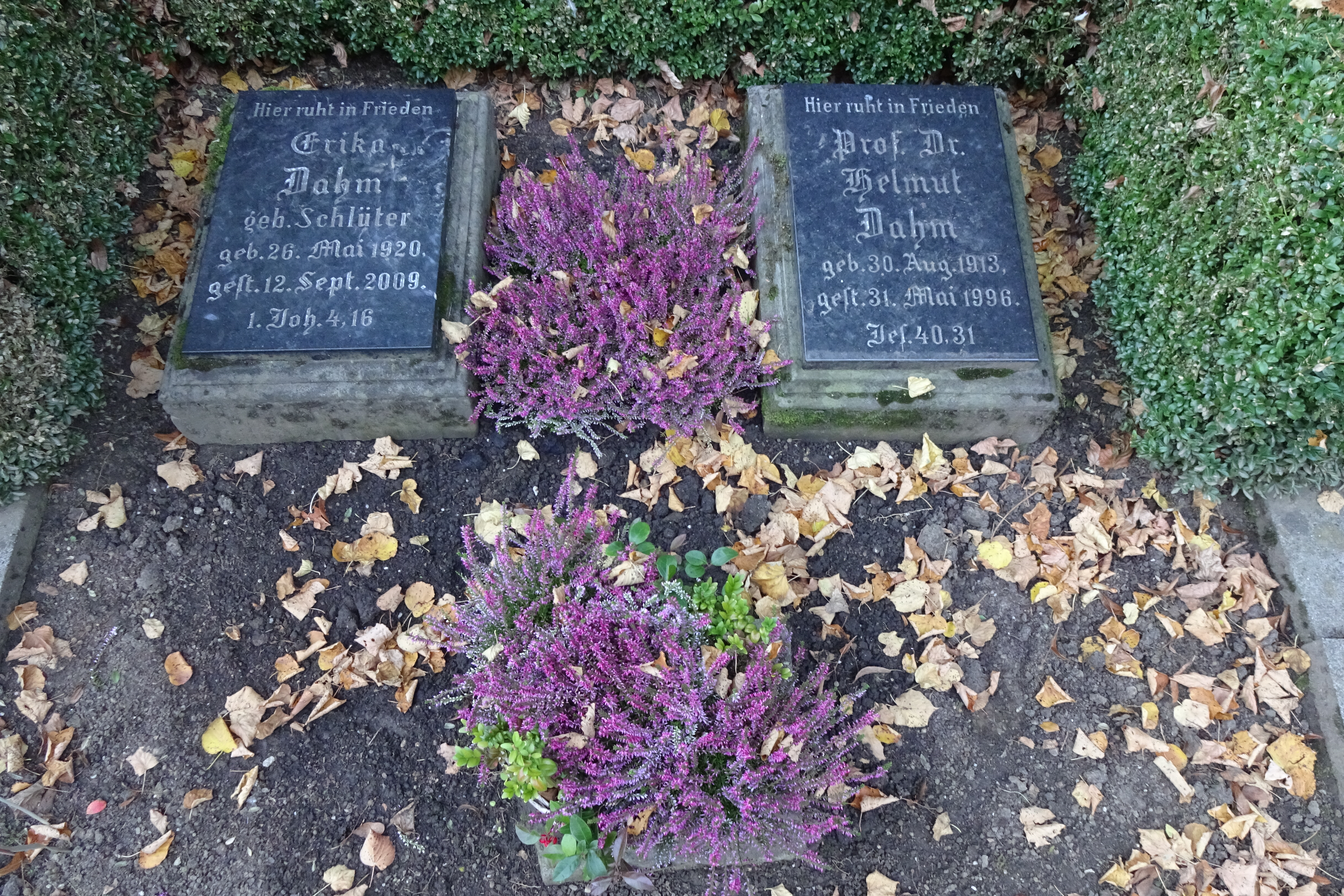 Grave of German archivist Helmut Dahm in Reformierten Friedhof Hochstraße in Wuppertal